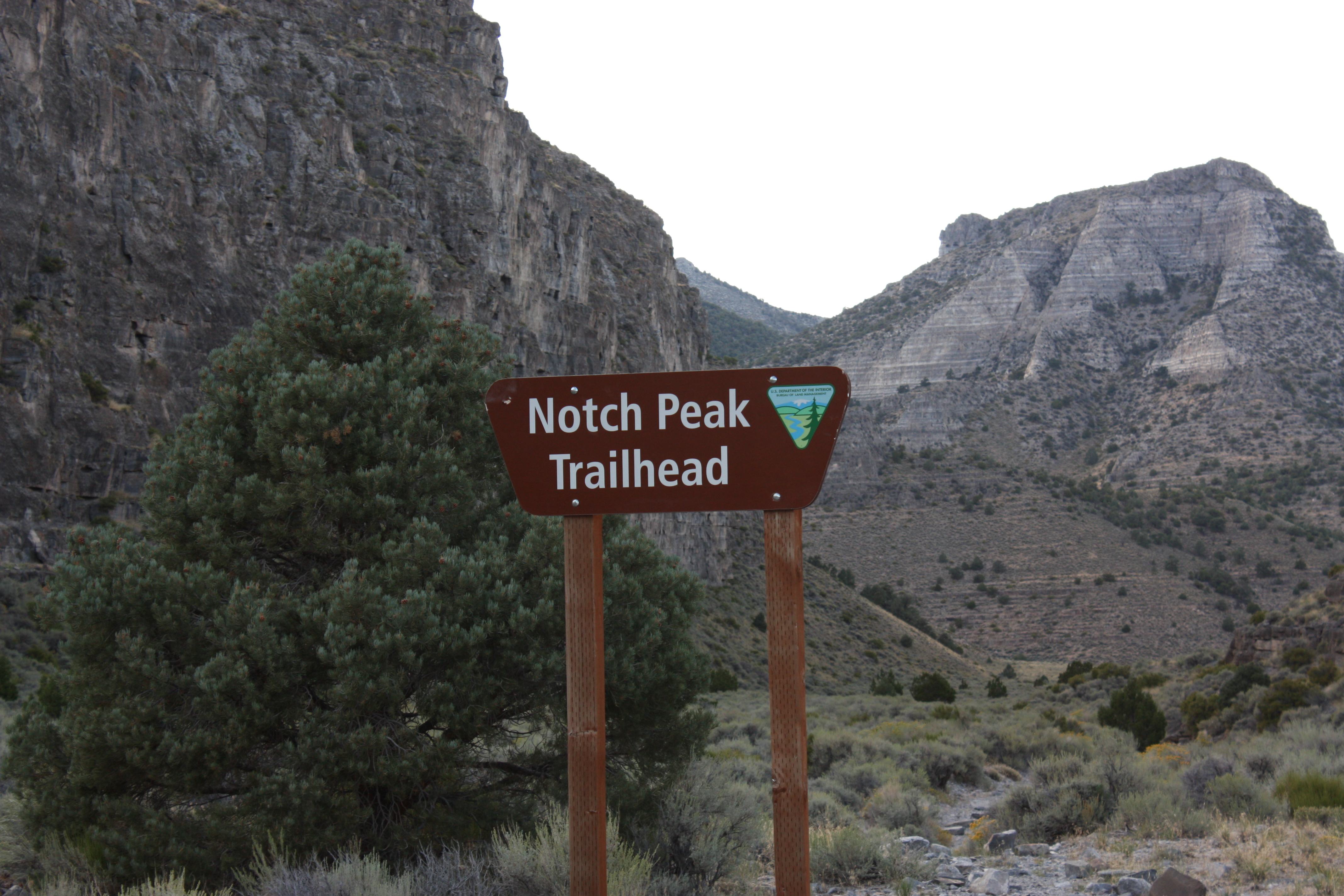 Notch Peak Utah Trailhead September 2013